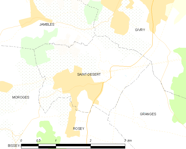 Map of French municipality